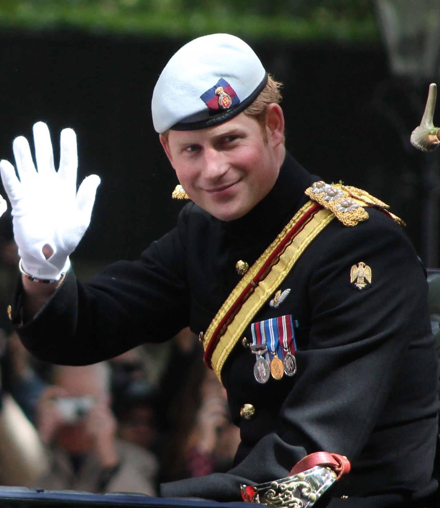 Prince Harry at Trooping the Colour, 2013